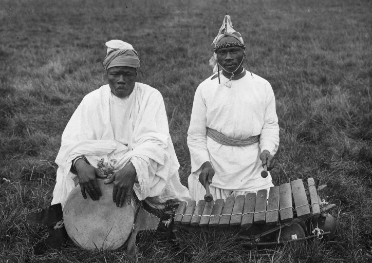 Susu people with djembe and balafo (photograph of unknown origin presented at the International Colonial Exhibition of Paris in 1931)